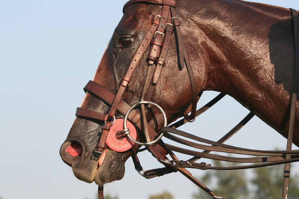 Polo At the Kentucky HOrse Park